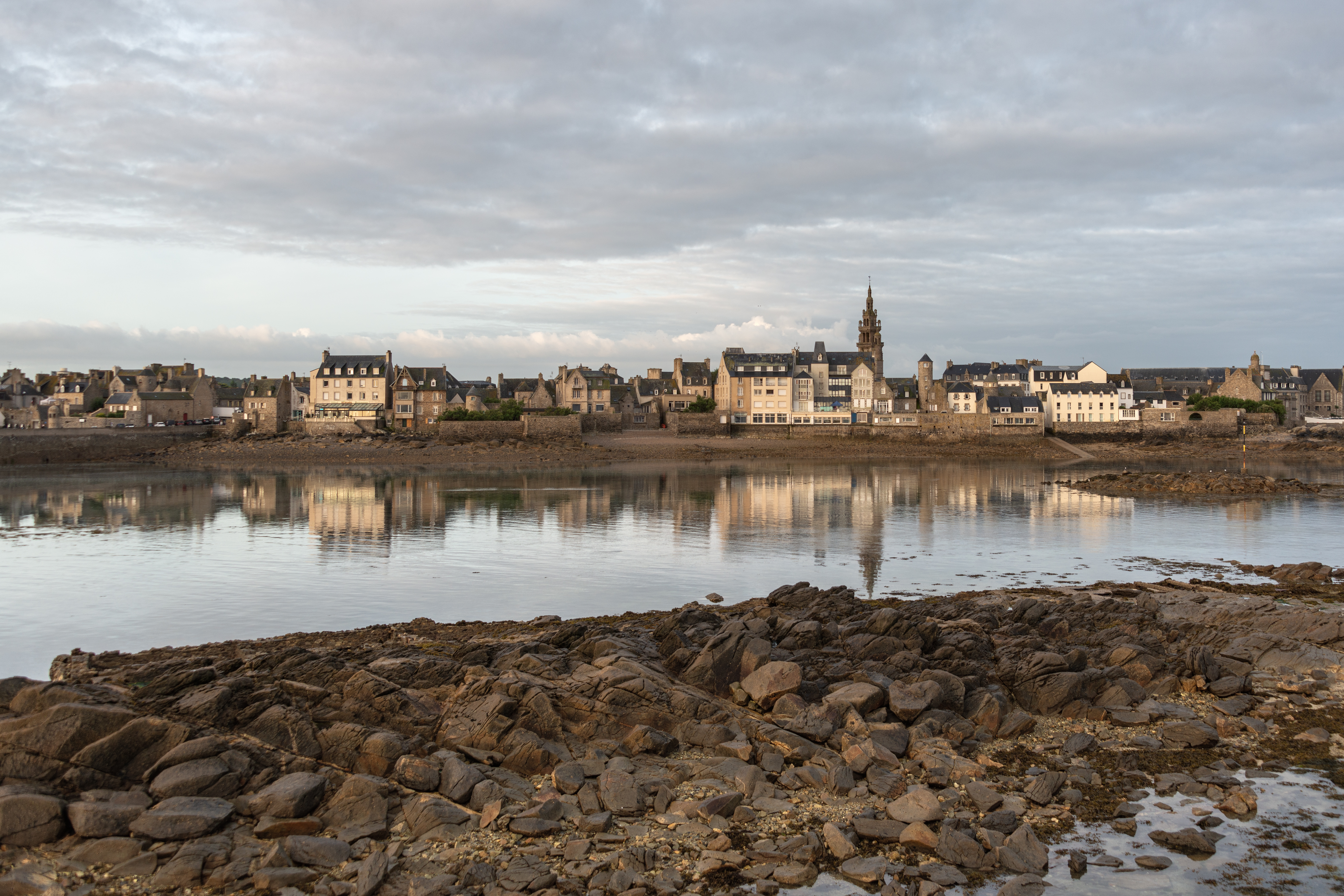 Roscoff - France